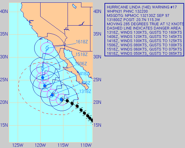 Forecasted track of Hurricane Linda on September 13, 1997, projecting a landfall on southern California